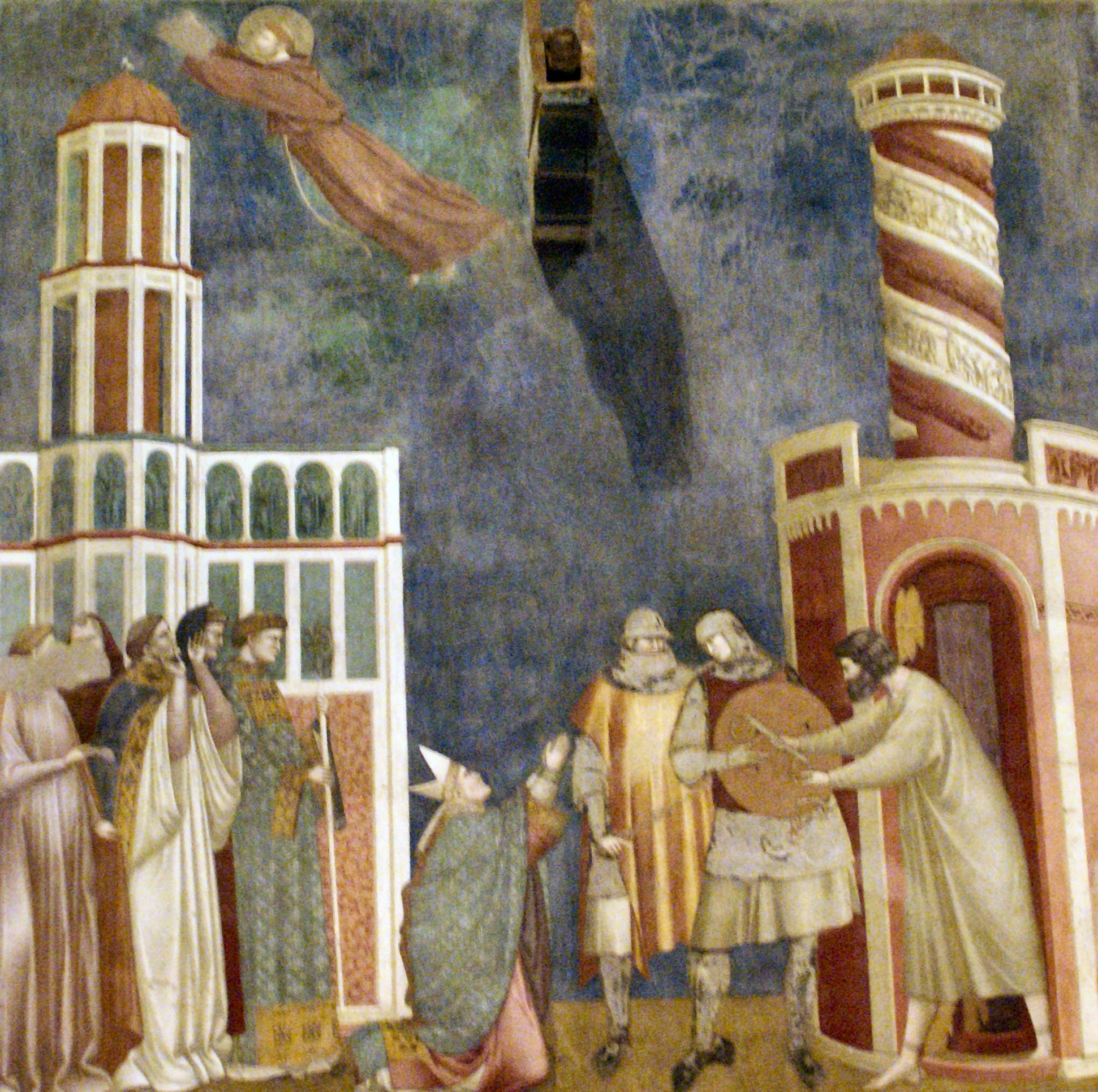 Giotto: Liberation of the heretic Peter,Basilica of Saint Francis,Assisi